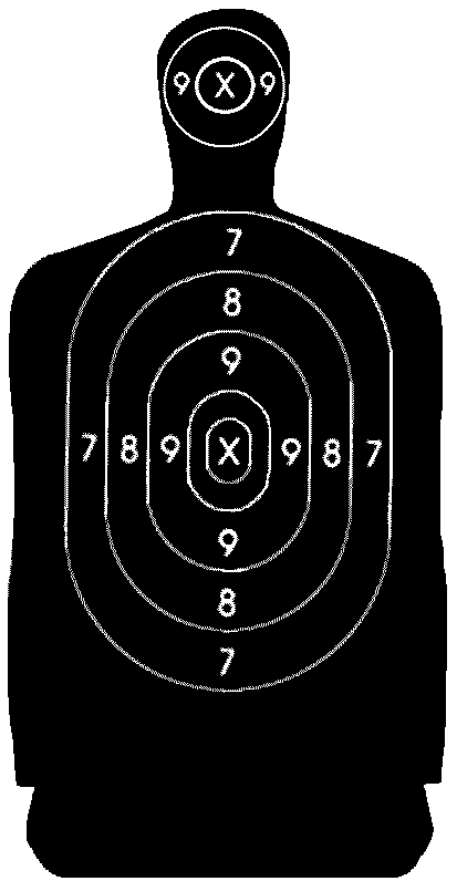 Human silhouette target similar to the B-27 target.